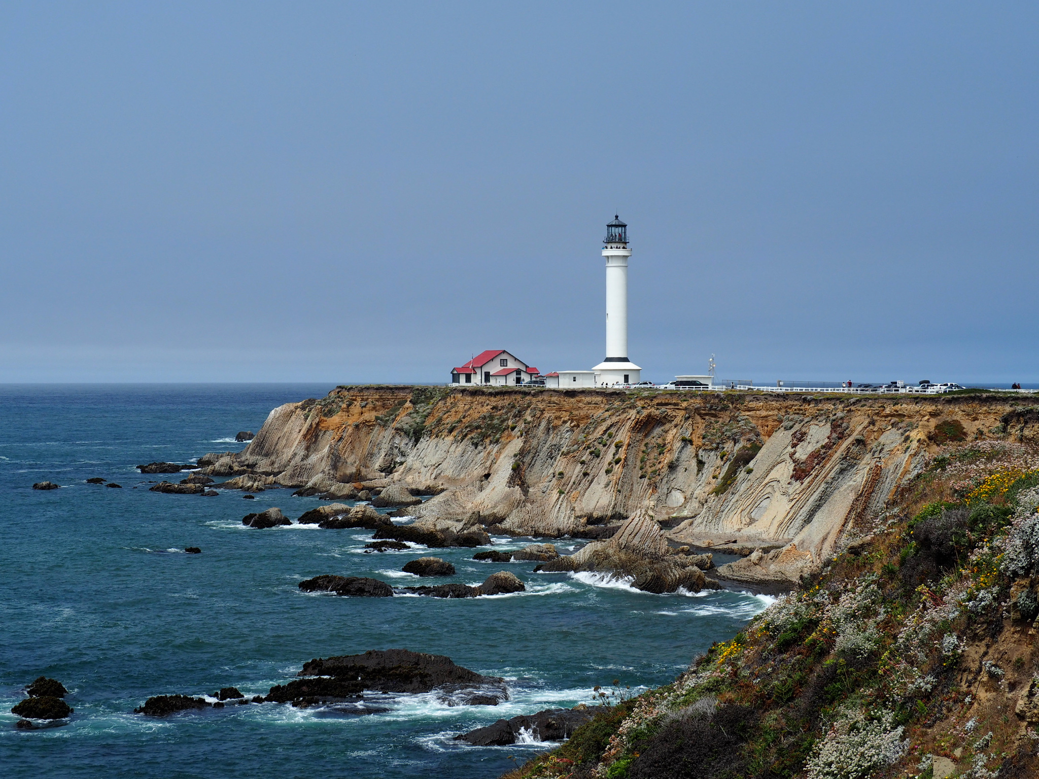 Point Arena and Point Arena Lighthouse, August 2019.